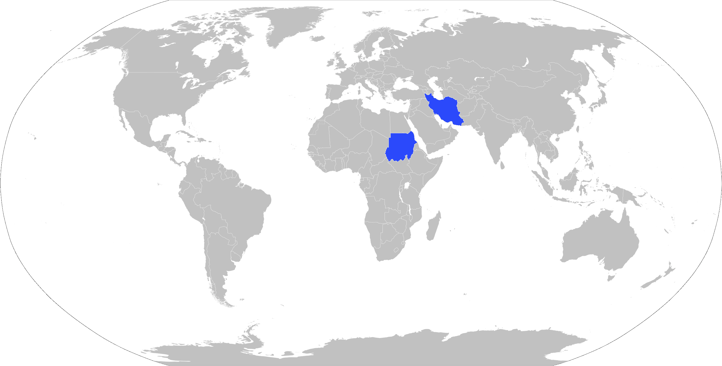 Boragh APC operators in blue colors